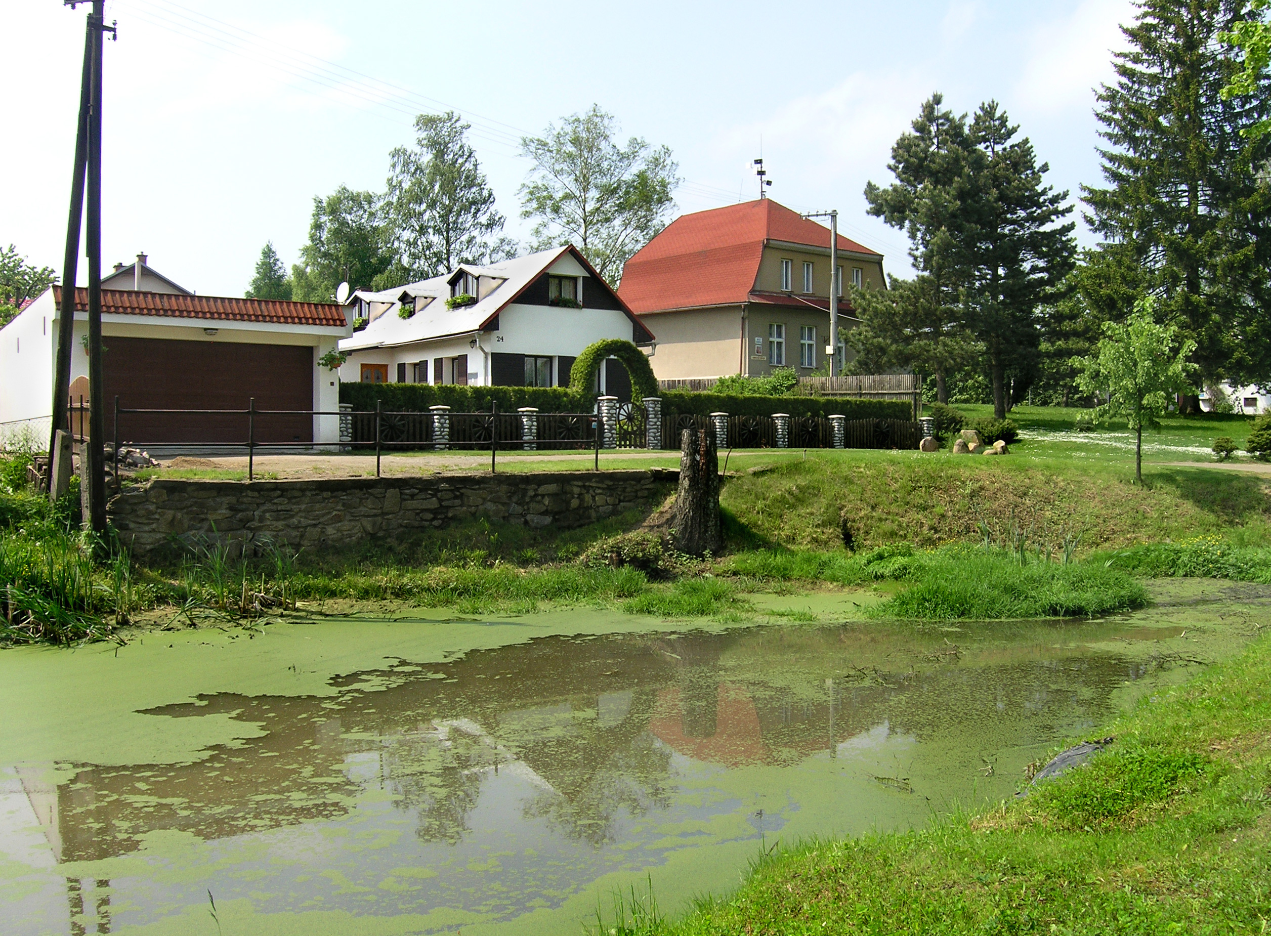 North part of Ždírec village, Czech Republic